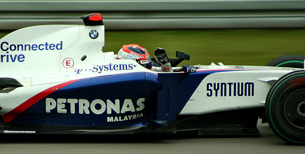 Robert Kubica driving for BMW Sauber at the 2009 German Grand Prix.